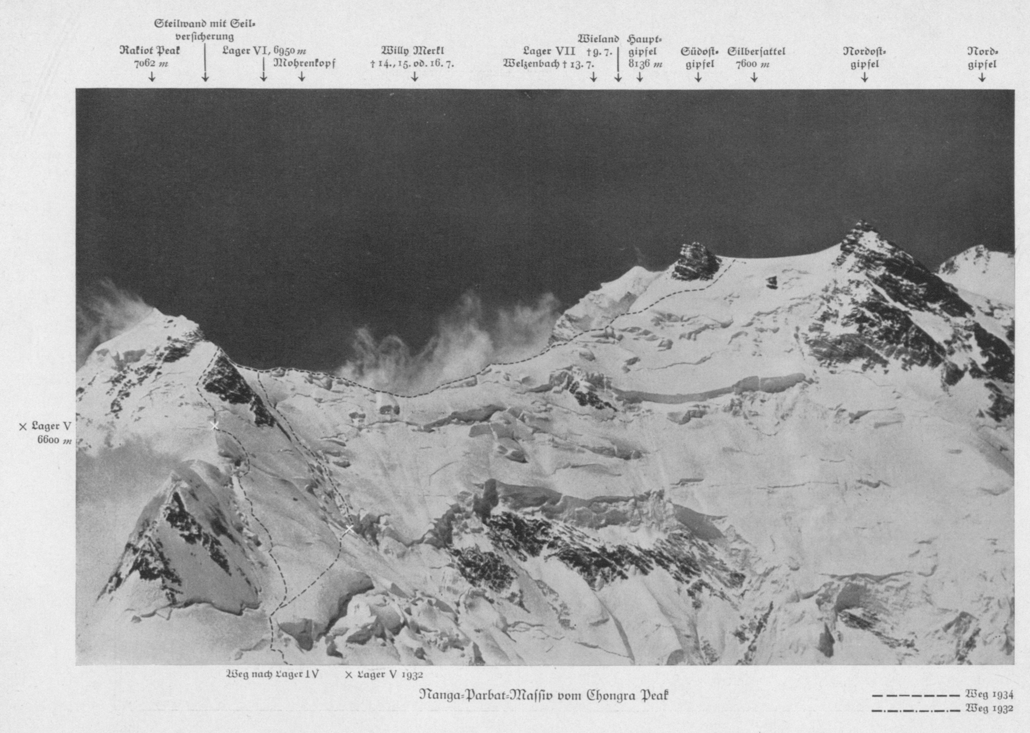 Nanga Parbat Rakhiot face with route annotations of Deutsch-Amerikanische Himalaya-Expedition 1932 and Deutsche Nanga-Parbat-Expedition 1934